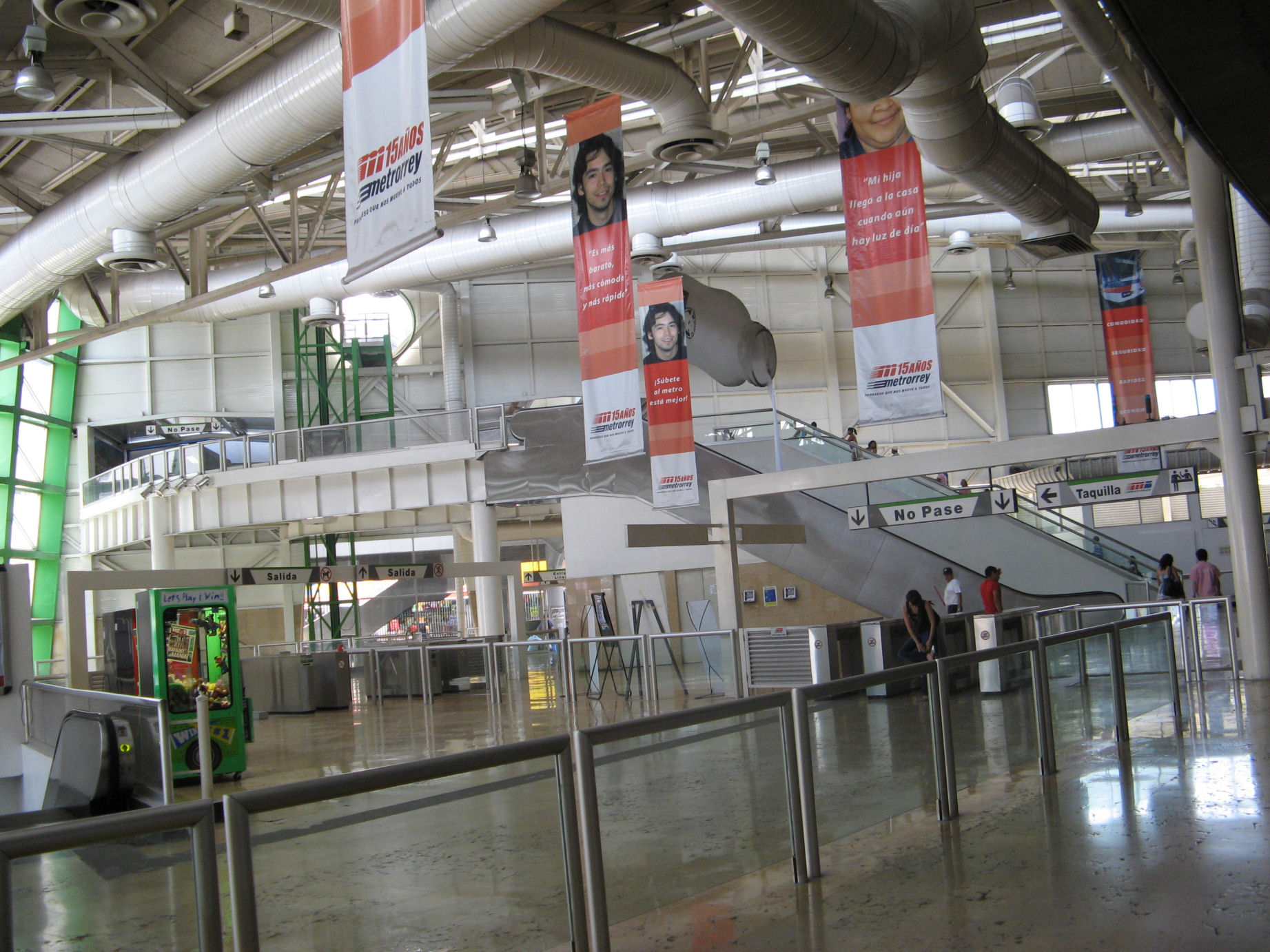 Transfer Point at Cuauthemoc Station - Line 1-2 of the Monterrey Metro